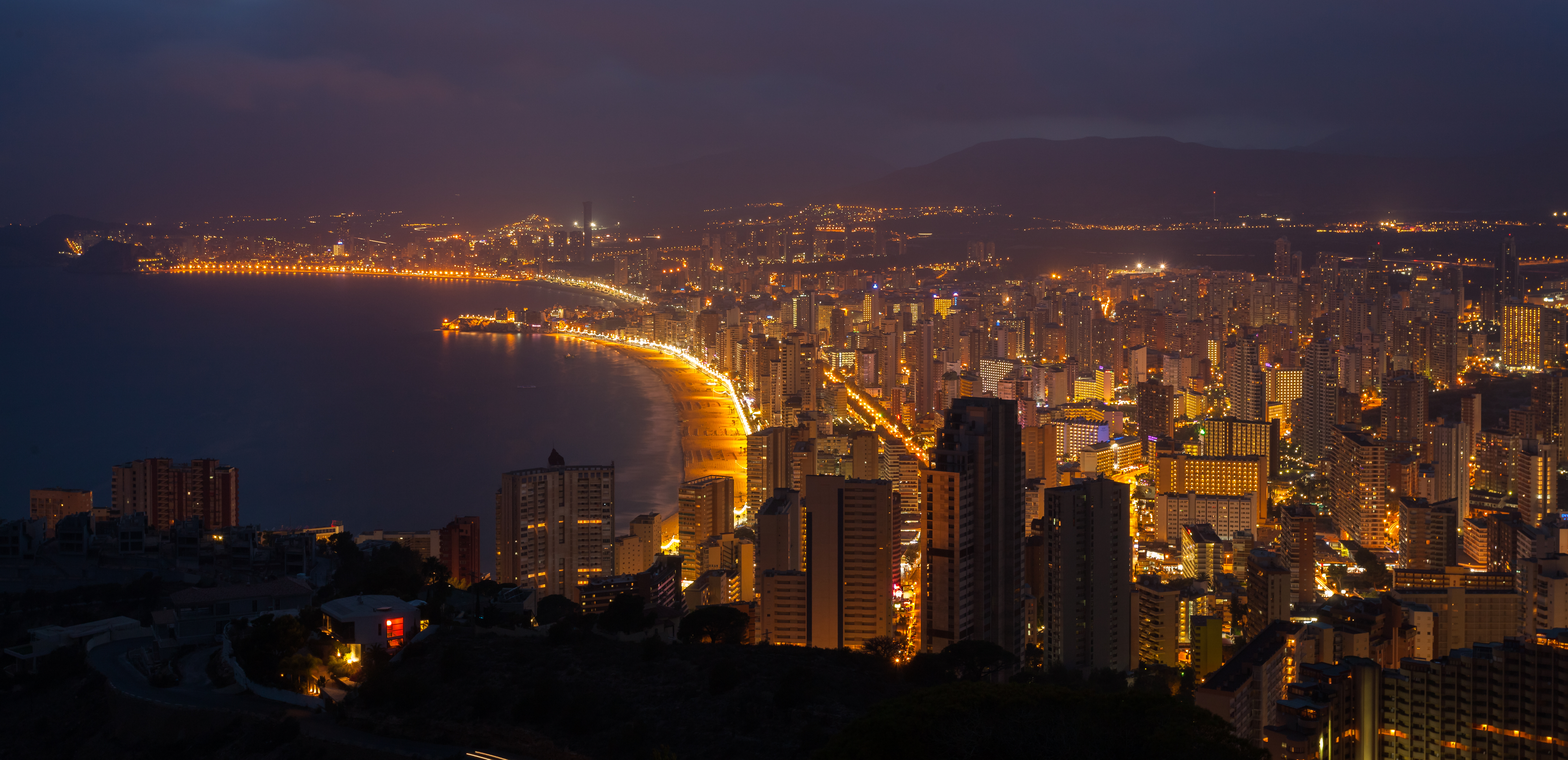 View of Benidorm, Spain